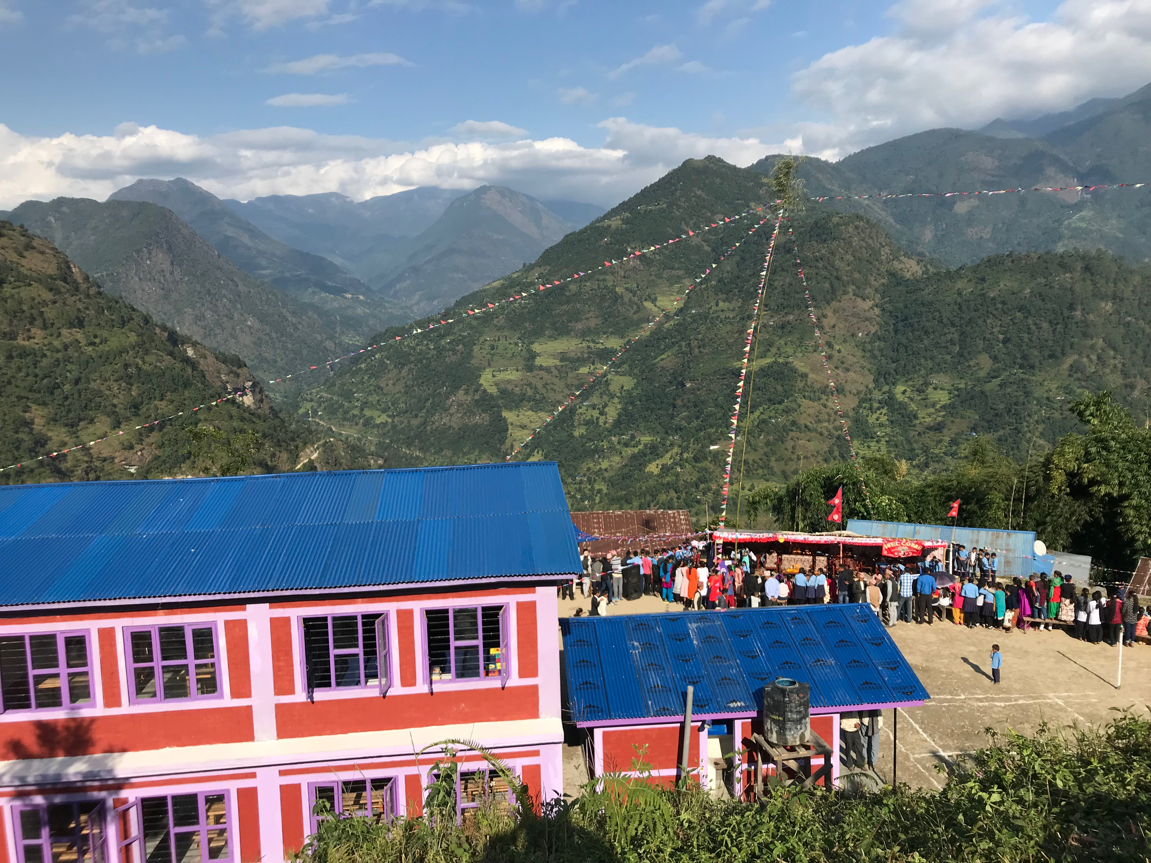 Ambegudin Secondary School, October 2018